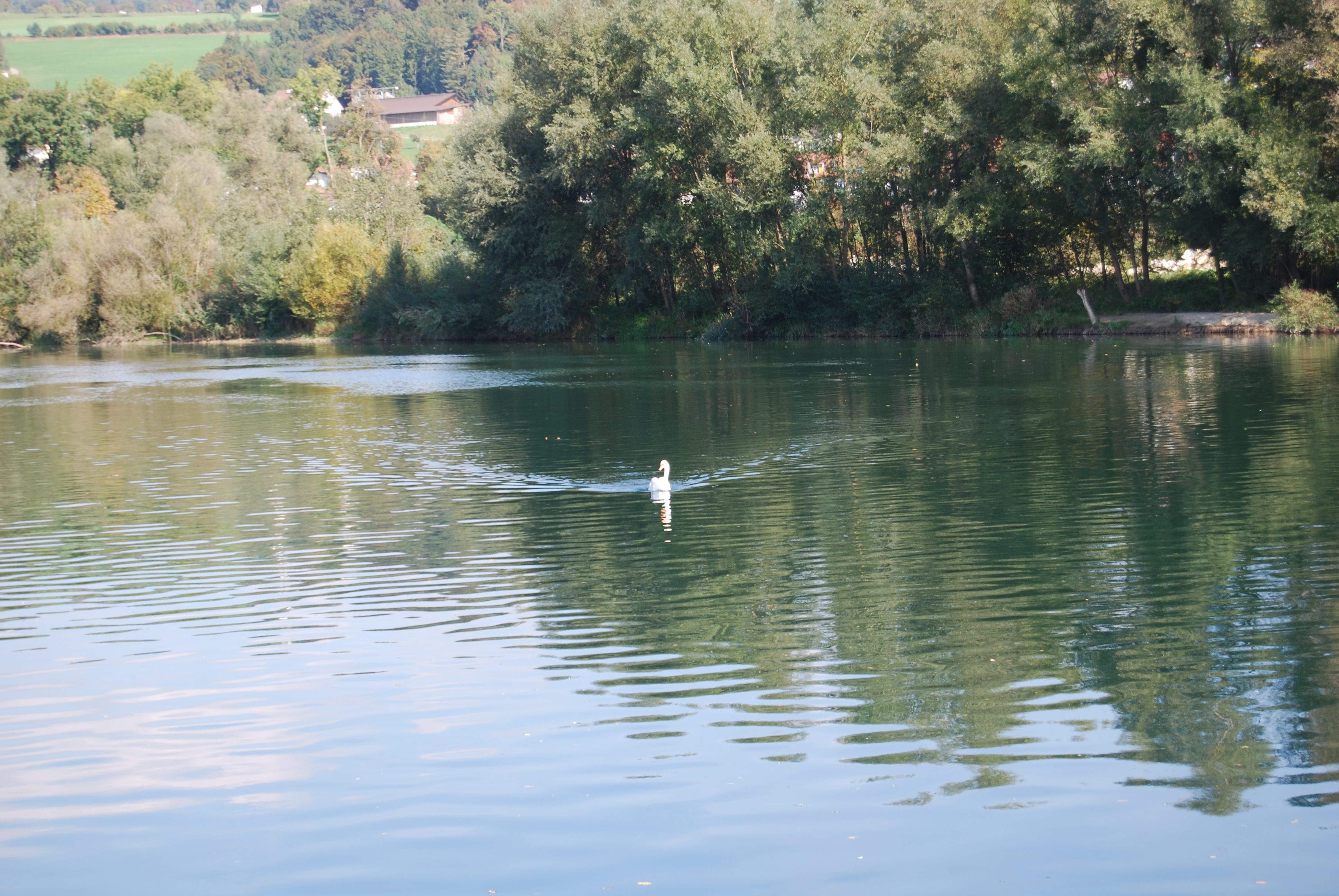 Lake Flachsee, seen from Rottenschwil, between Rottenschwil and Unterlunkhofen, canton of Aargau, SwitzerlandEsperanto: Lago Flachsee, vidita ek de Rottenschwil, inter Rottenschwil kaj Unterlunkhofen, Kantono Argovio, Svislando